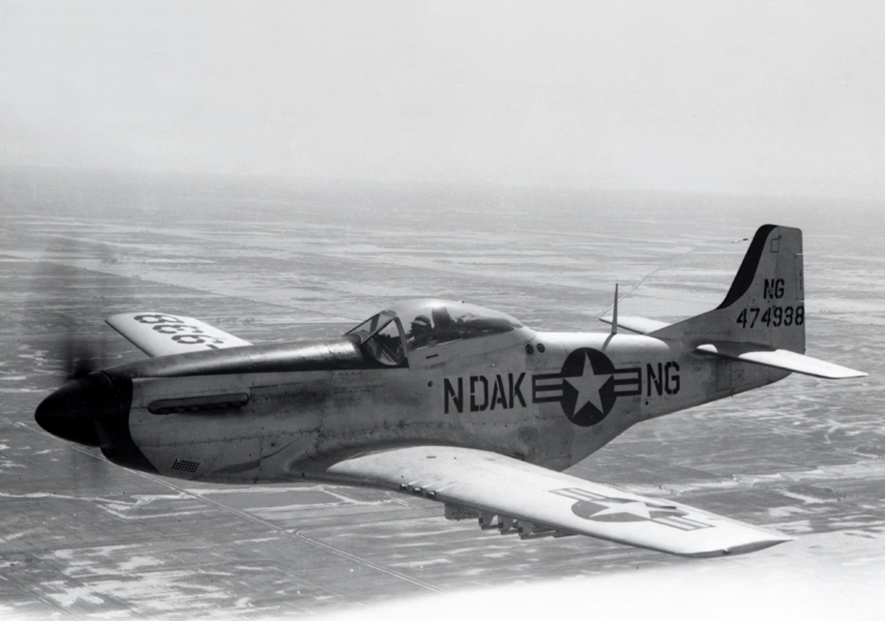 A U.S. Air Force North American F-51D-30-NA Mustang fighter (s/n 44-74938) from the 178th Fighter Squadron, 119th Fighter Wing, North Dakota Air National Guard, in flight. The North Dakota Air National Guard flew the F-51 from 1947-1954.